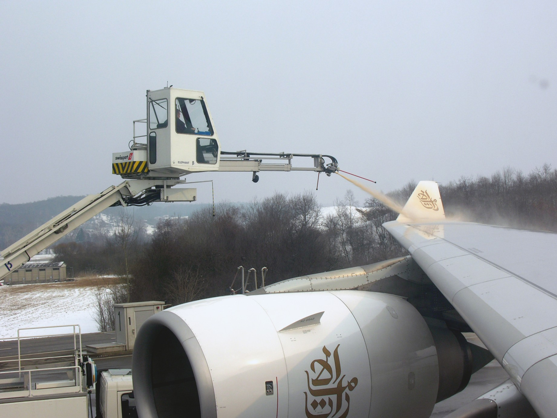 Switzerland, De-Icing of an Emirates Airbus A340-500 at Zurich International Airport